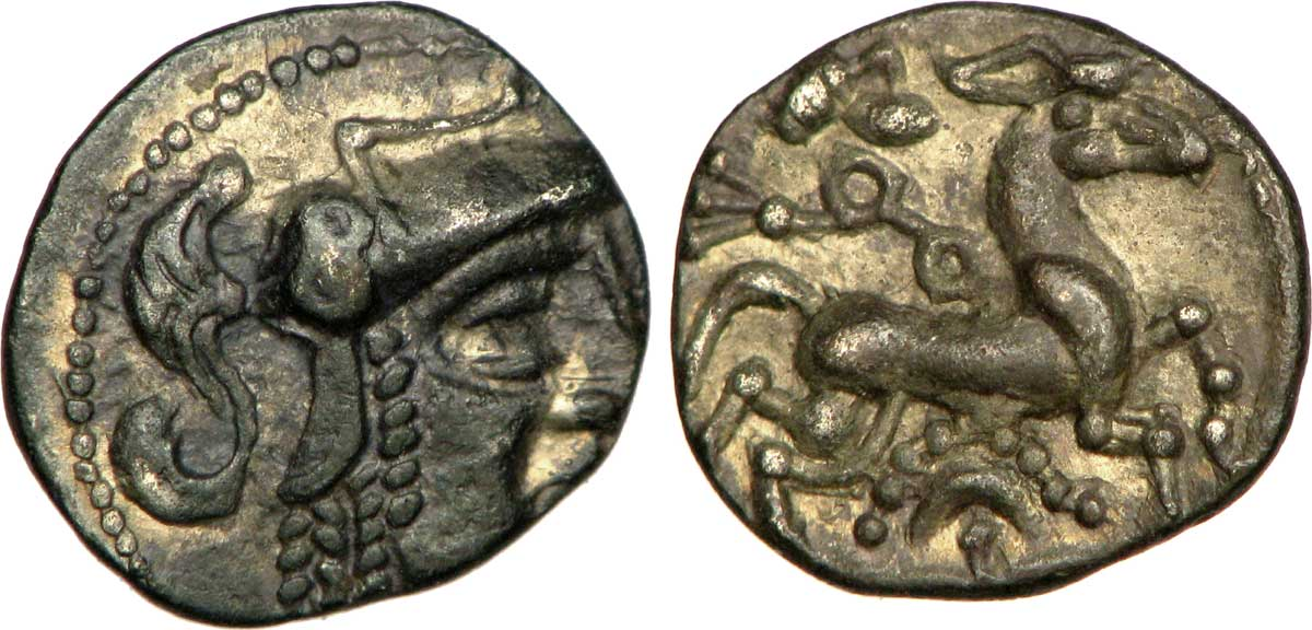 Denier à la tête casquée à droite frappé par les Aulerques Cénomans Date : c. 80-50 AC. Description revers : Cheval libre galopant à droite, une victoire au-dessus de la croupe et une sorte de tête d’Hélios entre les jambes .